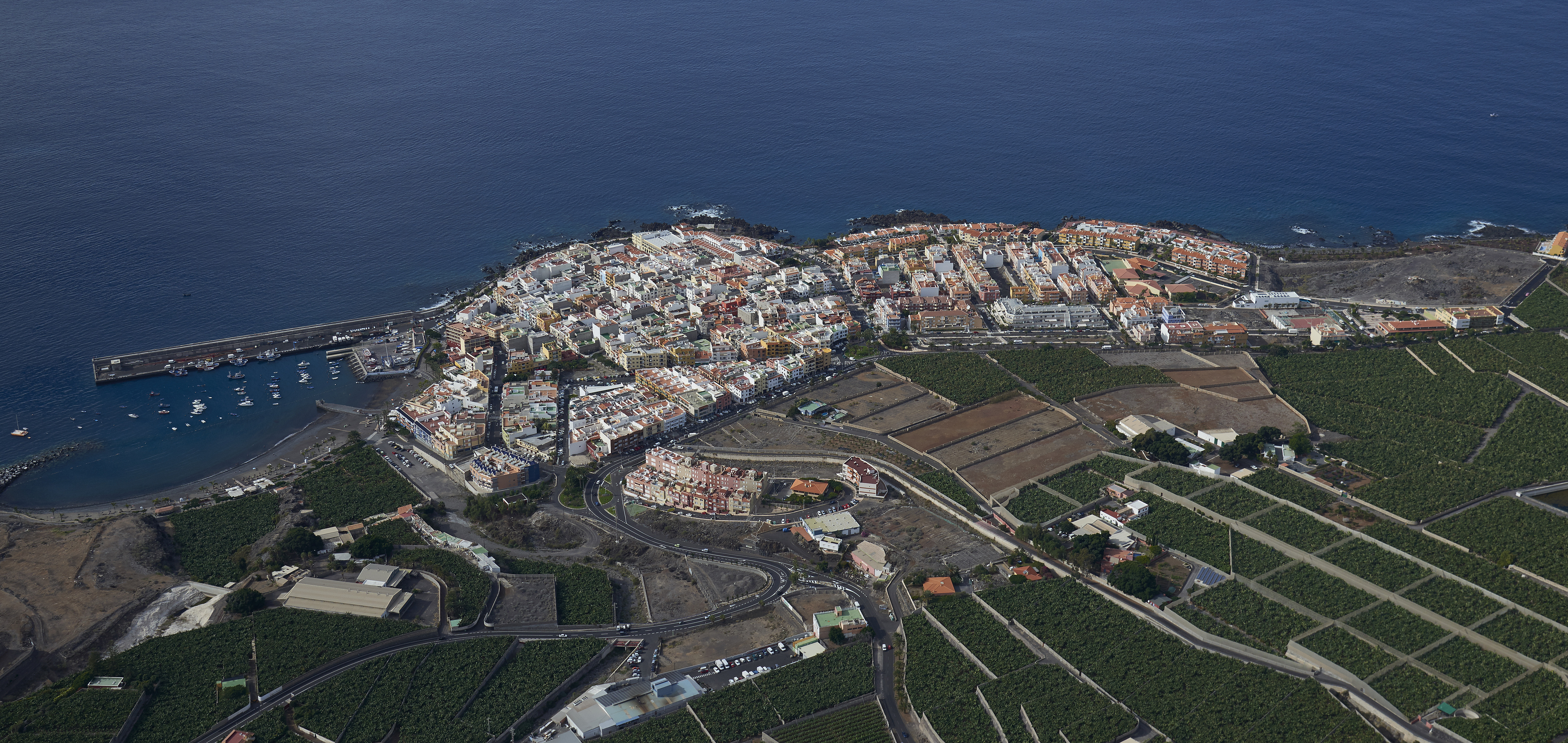 Playa San Juan in Tenerife aerial view